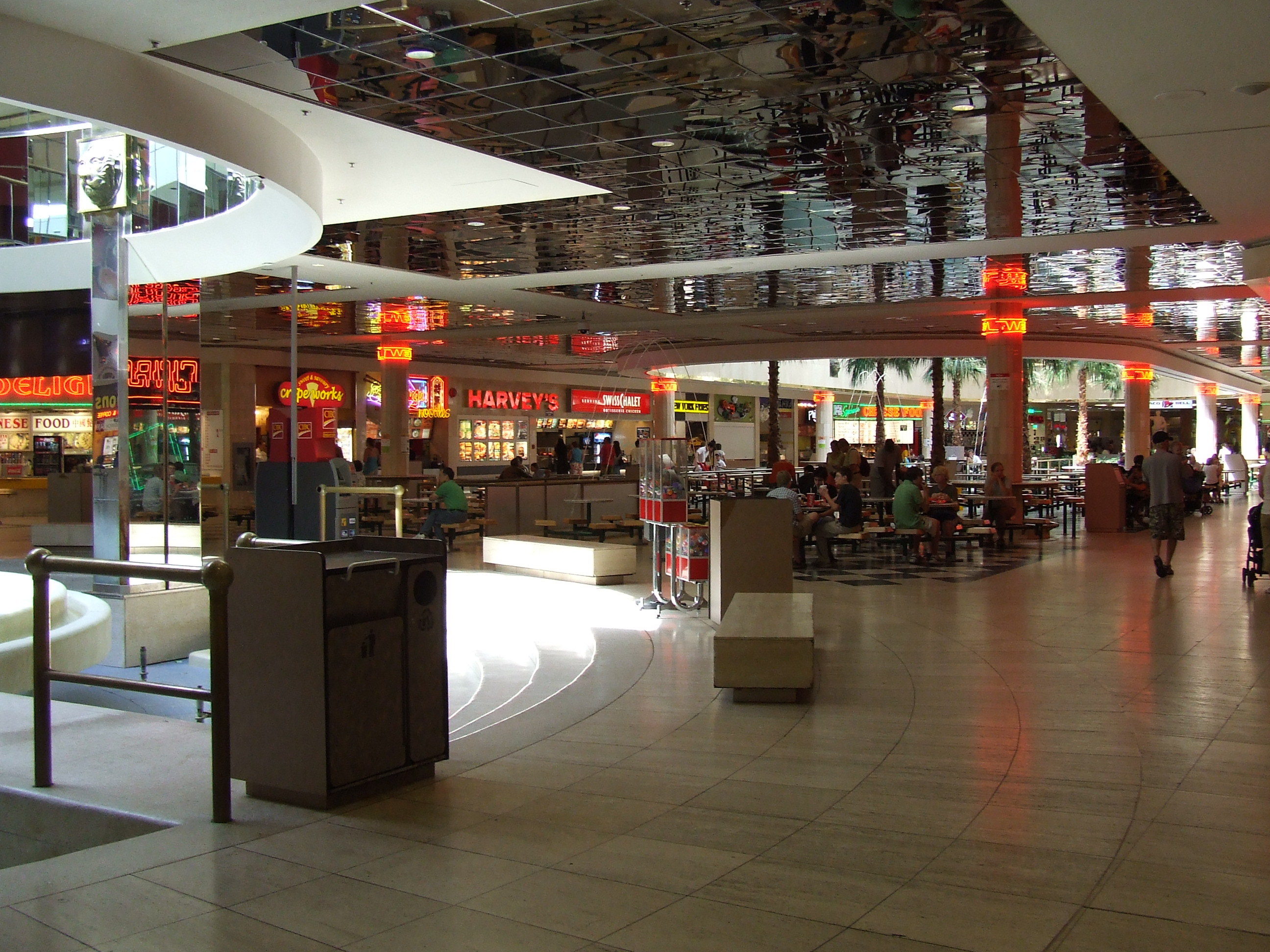 Taken by me summer 06